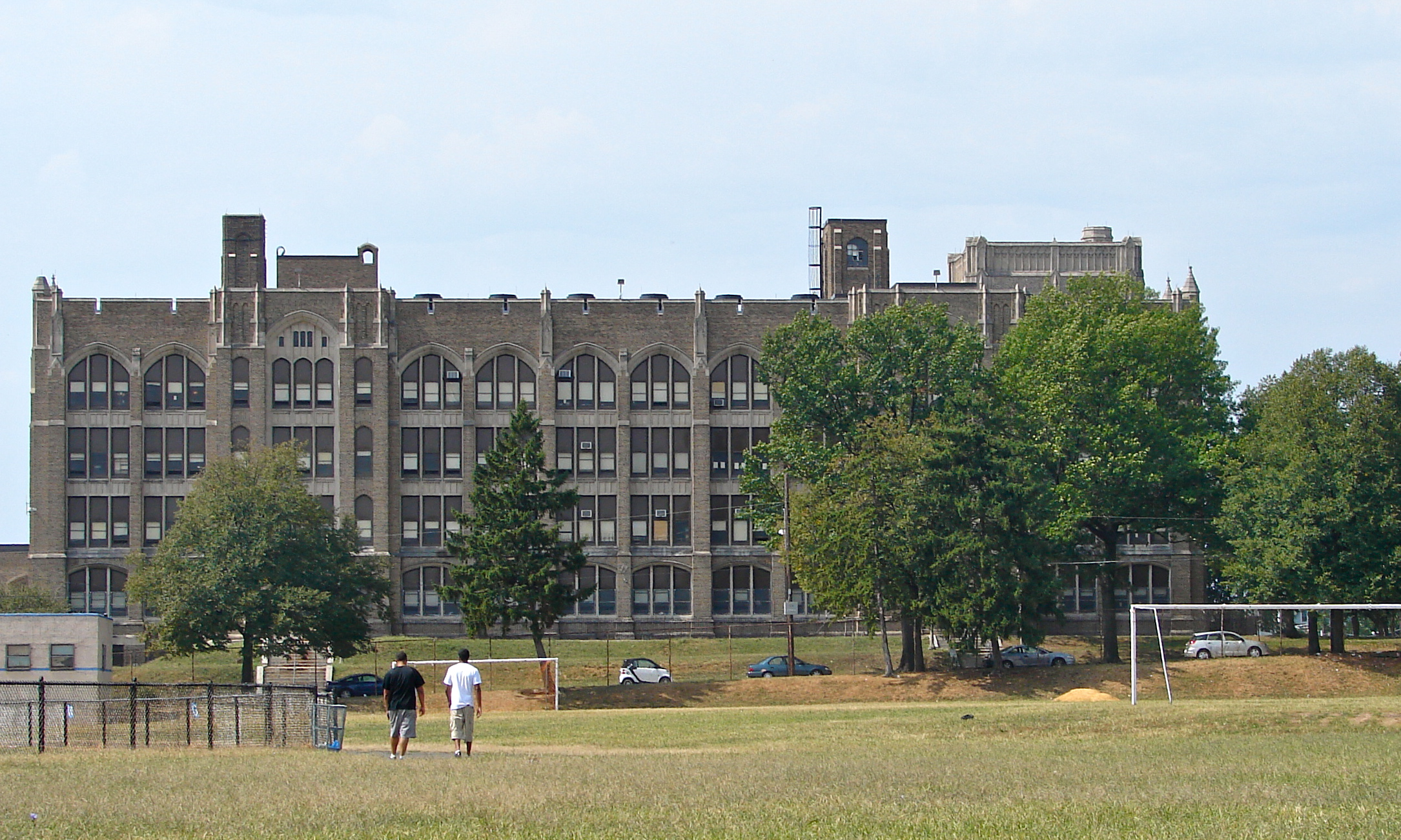 Olney High School in Philadelphia on the NRHP since December 4, 1986. At 100 West Duncannon Av. in the North Philly neighborhood of Olney. Not to be confused with Olney Elementary School (also on NRHP) nearby.